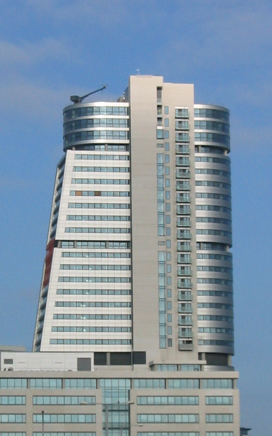 Bridgewater Place, Leeds UK residential and commercial building September 2007